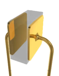 Cleaned-up version of existing (GNU) image file